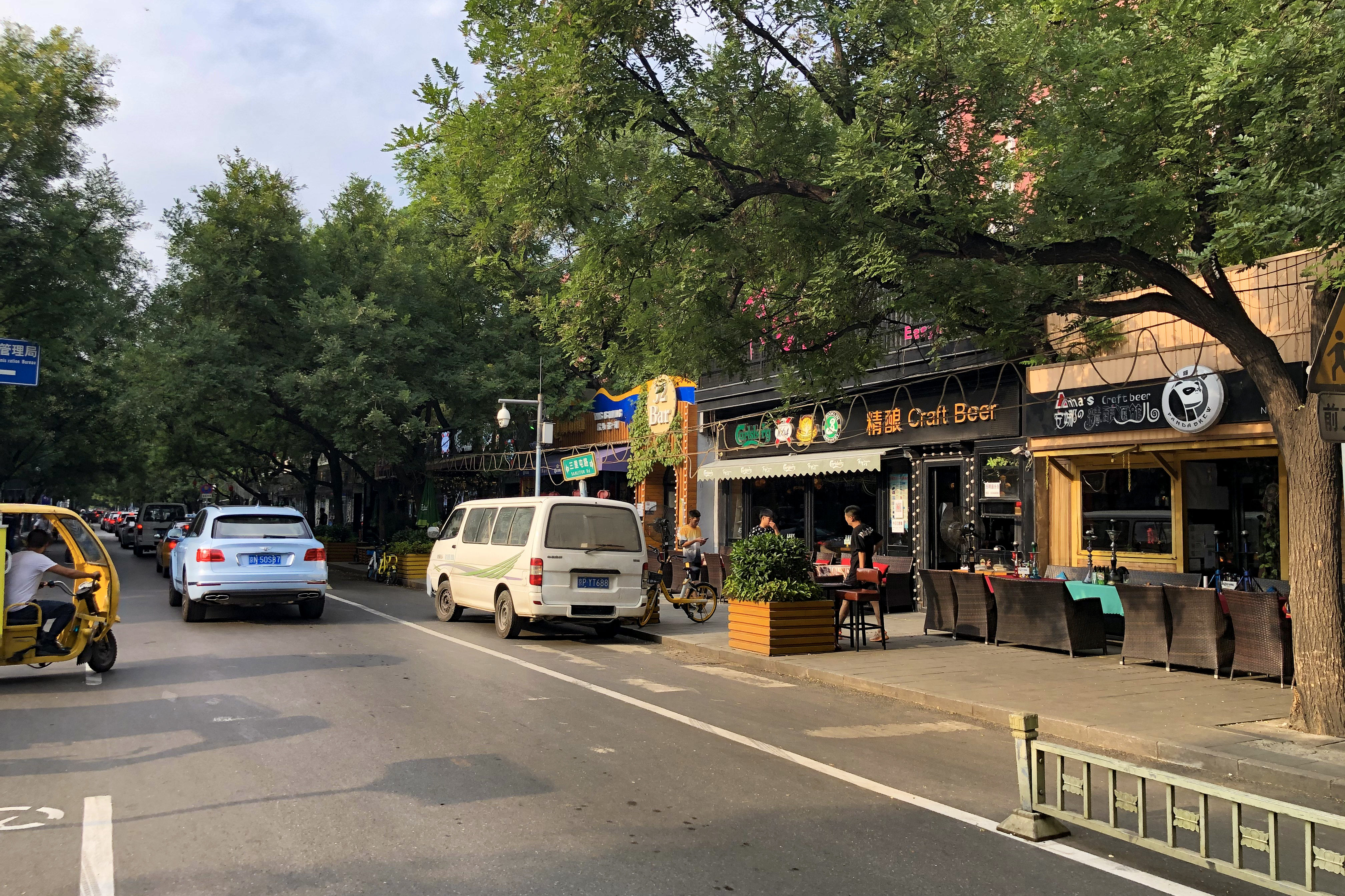 The so-called "bar street"?